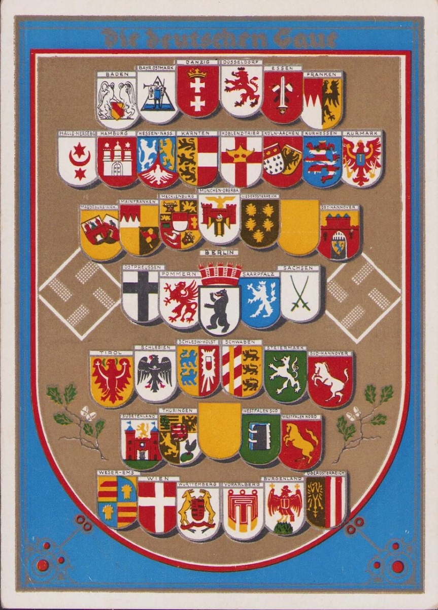 Propaganda postcard of Nazi Germany, German Gaues of Reich, front side, October 6, 1939